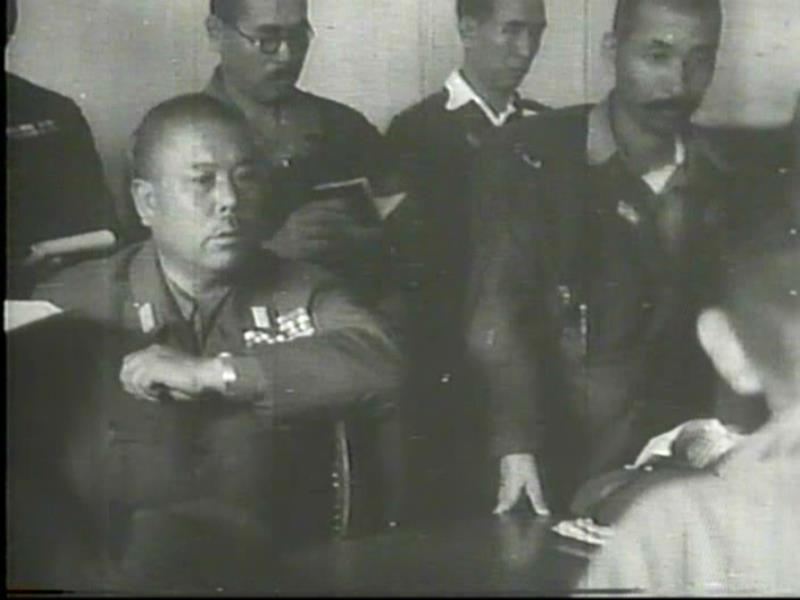 Battle of Singapore, Tomoyuki Yamashita.